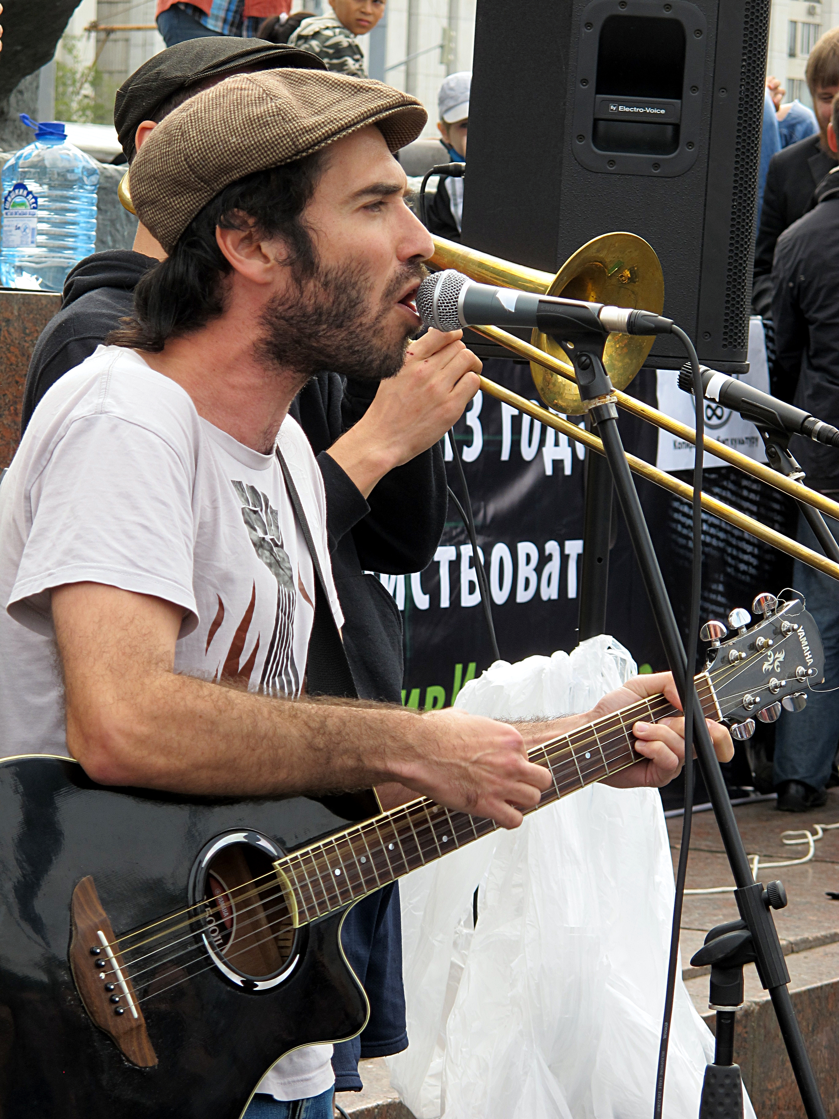 The rally-concert "For Free Internet" in Moscow July 28, 2013.